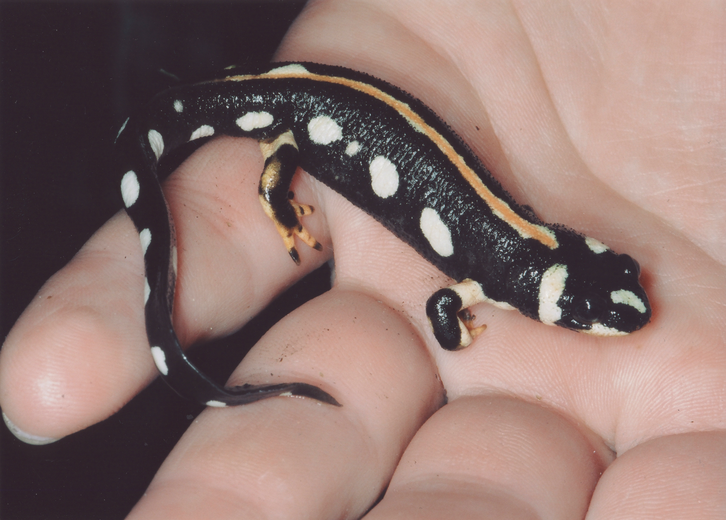 Adult Neurergus kaiseri